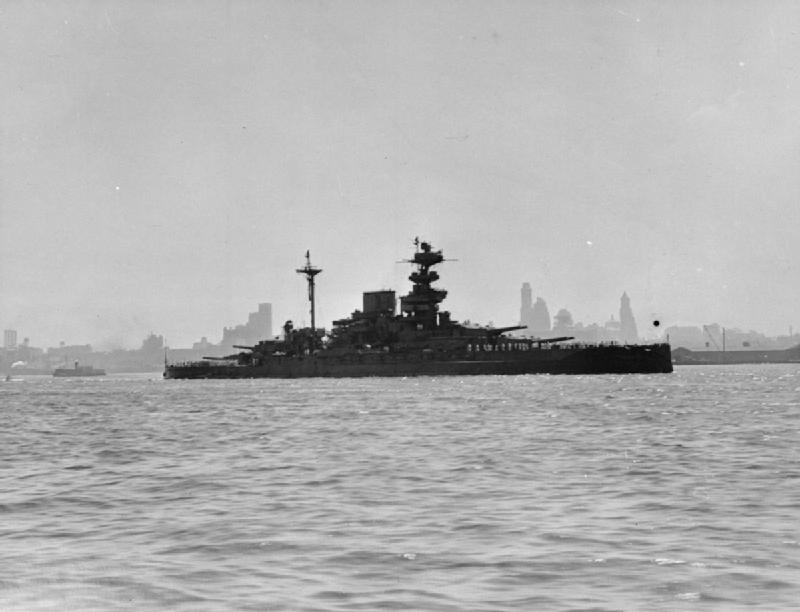 HMS Malaya Leaving New York Harbour After Repairs, 9 July 1941 HMS MALAYA leaving New York after refit in the United States. The city can be seen in the background.